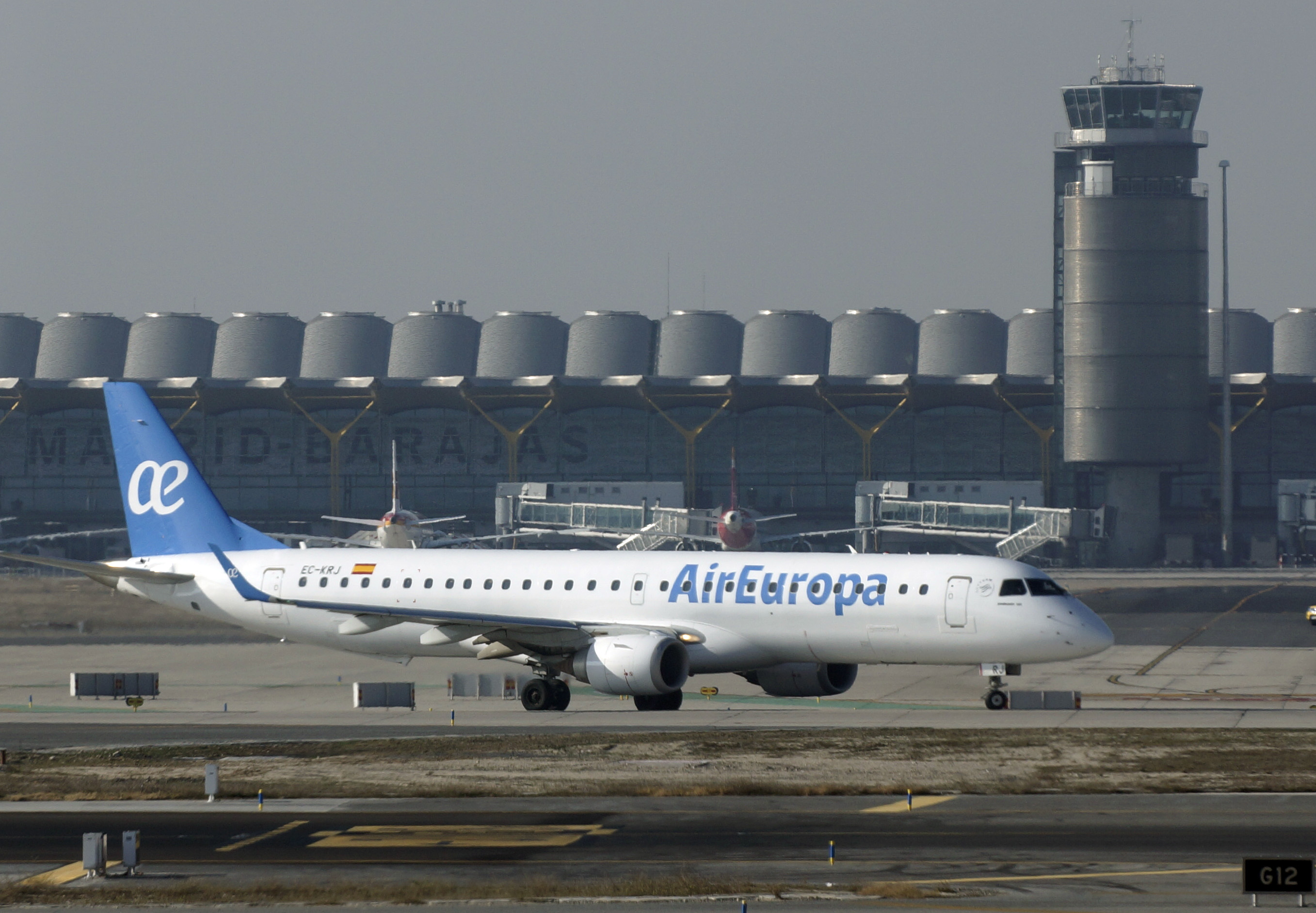 Air Europa Embraer 195 EC-KRJ at Madrid-Barajas